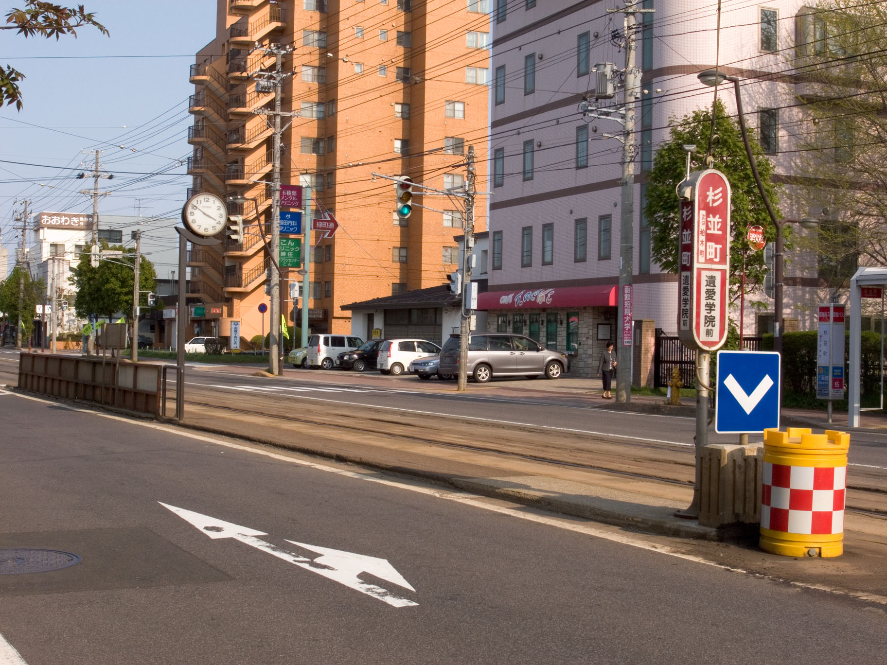 Suginamicho station in Hakodate tram, Hokkaido, Japan